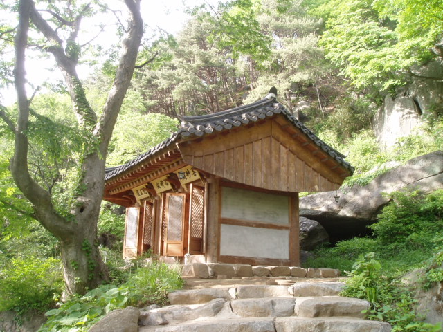 Buseoksa Temple, Seosan City, South Chungcheong Province (Chungcheongnam-do), South Korea